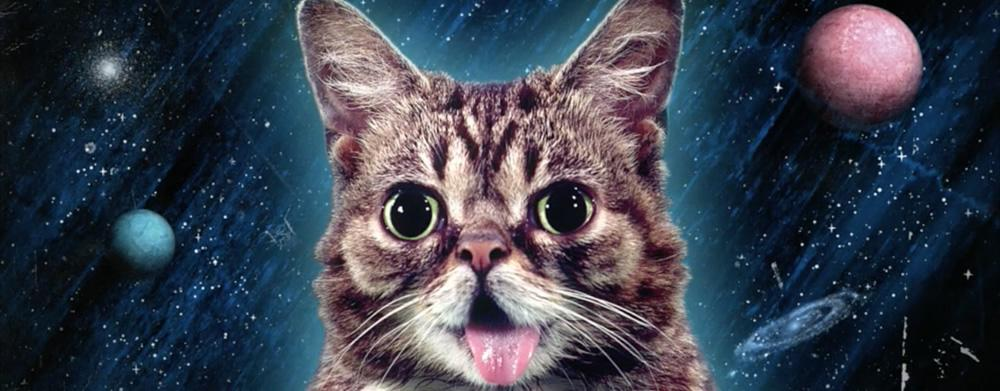 Lil' Bub, internet celbrity cat, c. 2013.